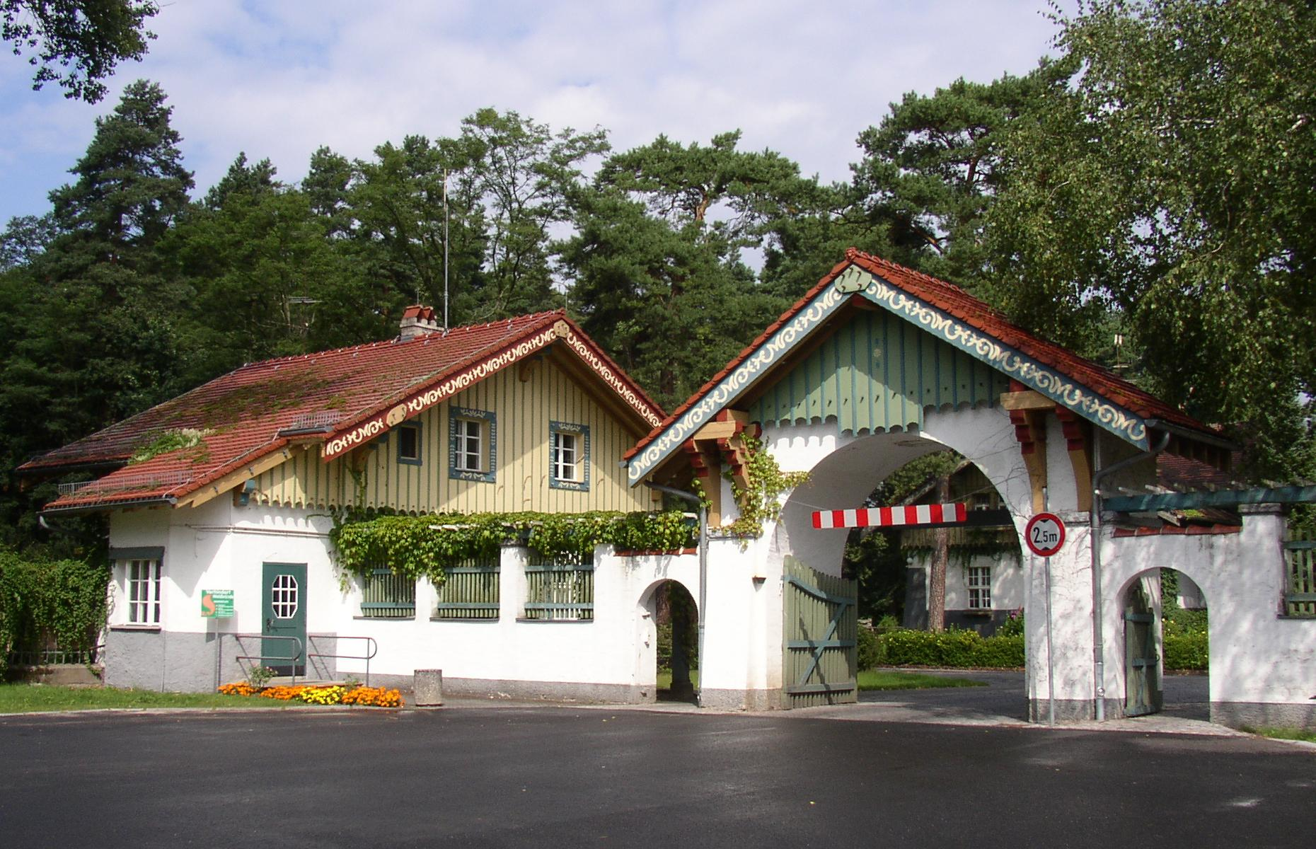 Clinic building in Kremmen-Sommerfeld in Brandenburg, Germany